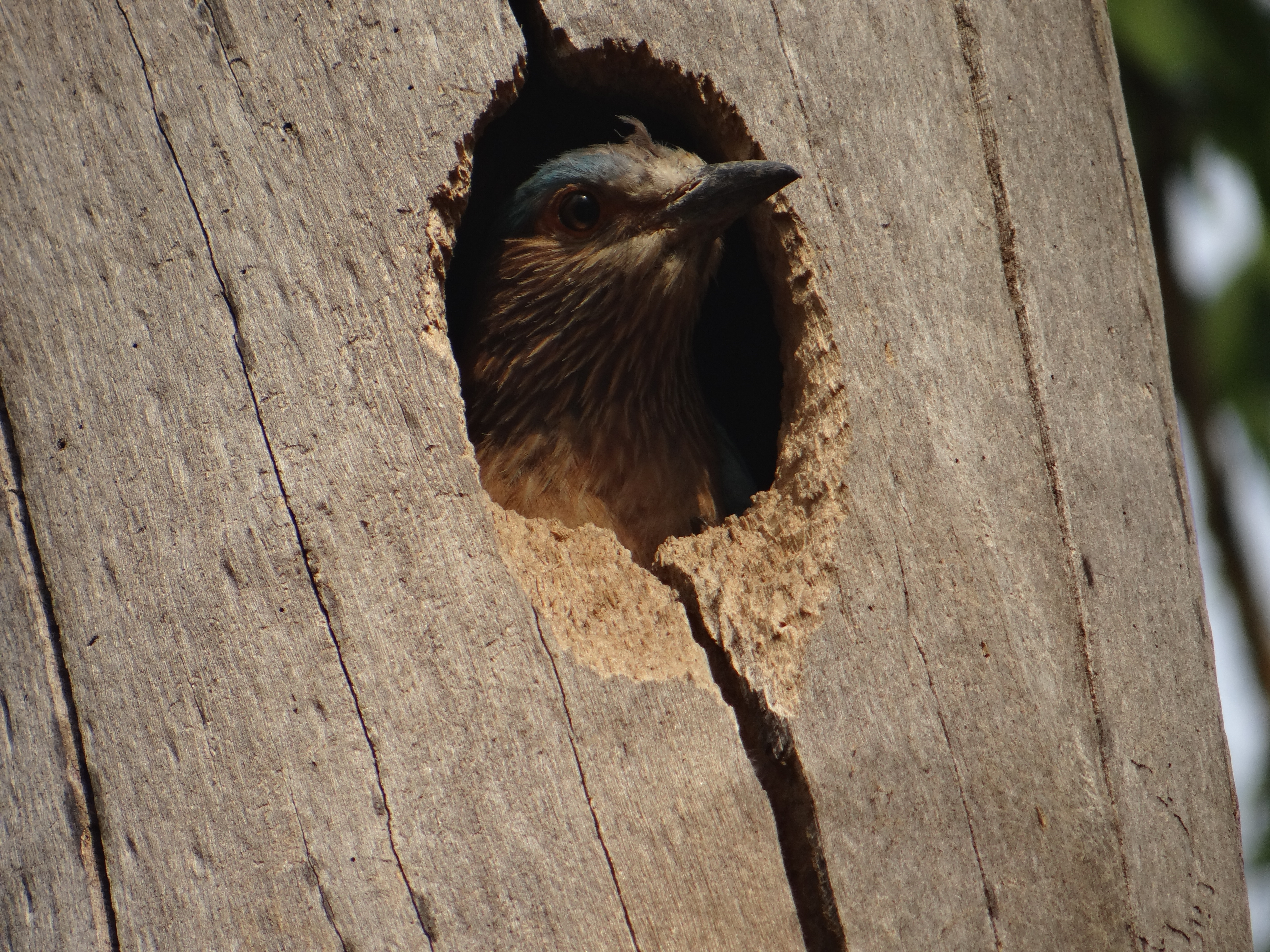 Indian roller seating in his nest. Photo was taken at Pench tiger reserve.